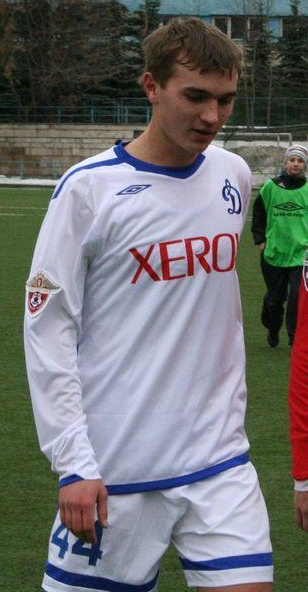 Nikolai Lipatkin as a player of FC Dynamo Moscow Reserves